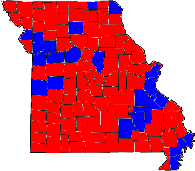 2002 Missouri Senate election results by county.